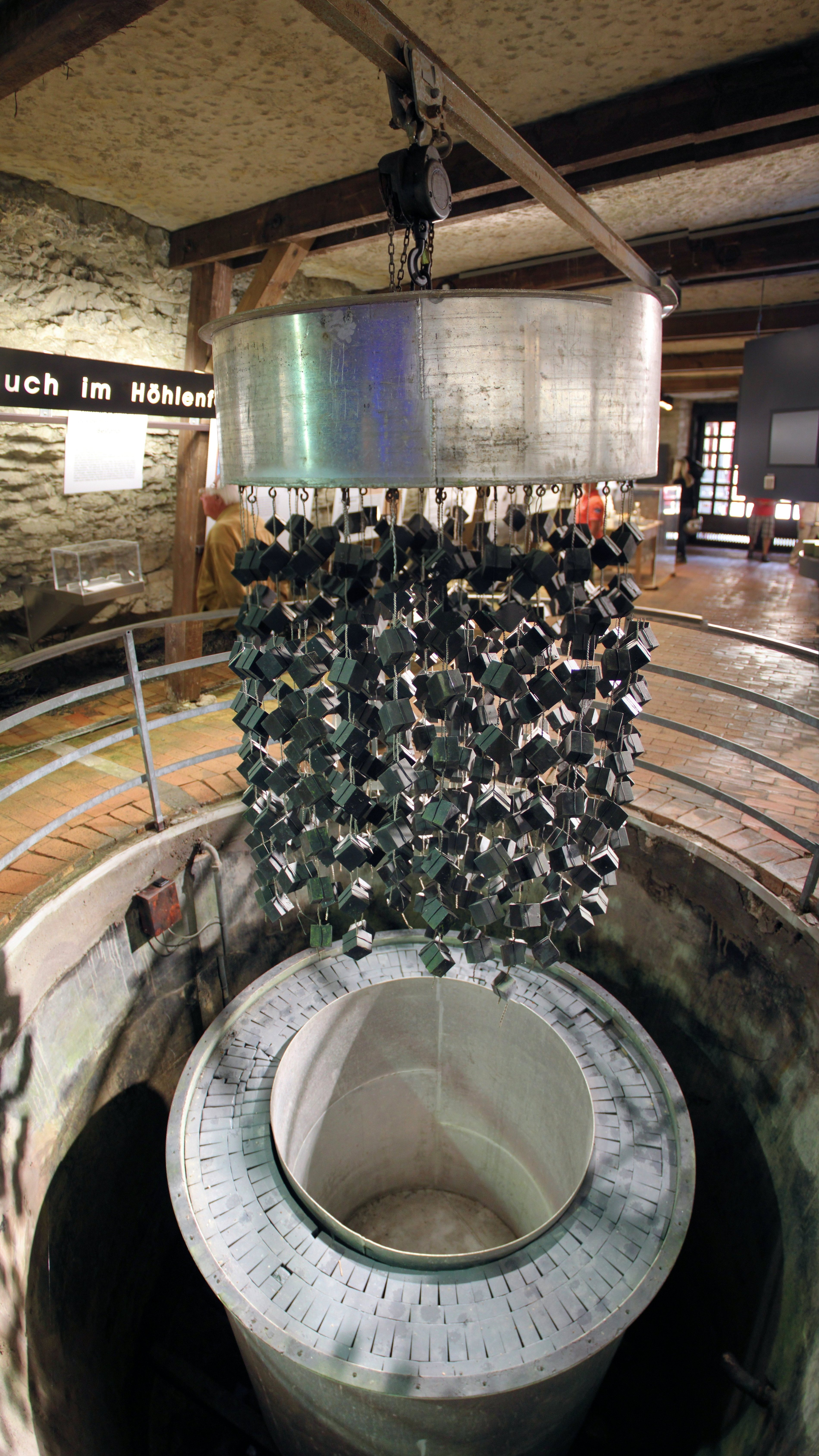 Haigerloch: Reconstructed research reactor in the Atomkeller-Museum (nuclear cellar museum).